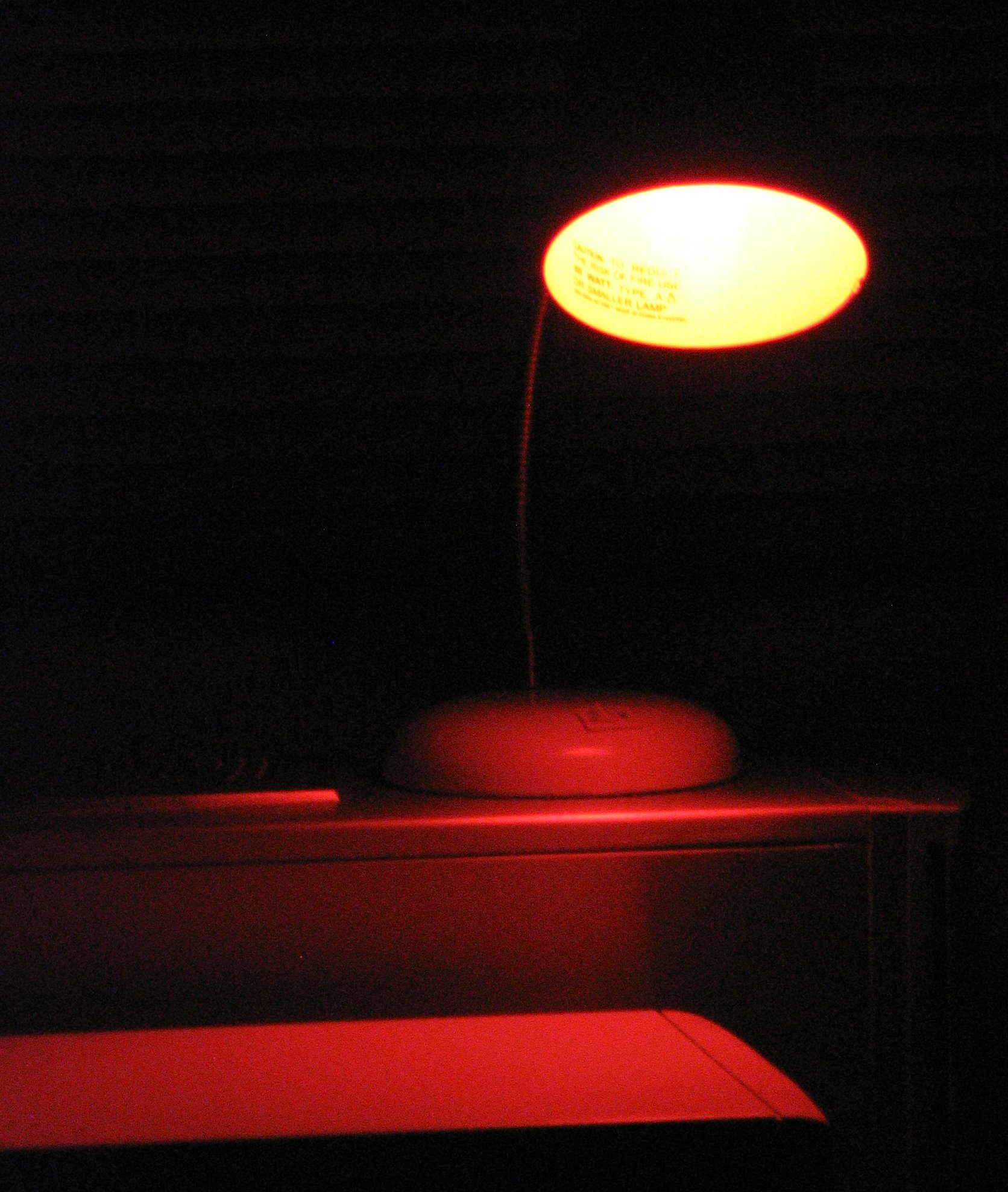 A picture I took of an amber (light brown) safelight for use with Ilford black and white photographic paper. --Douglas Whitaker 02:18, 24 July 2006 (UTC)